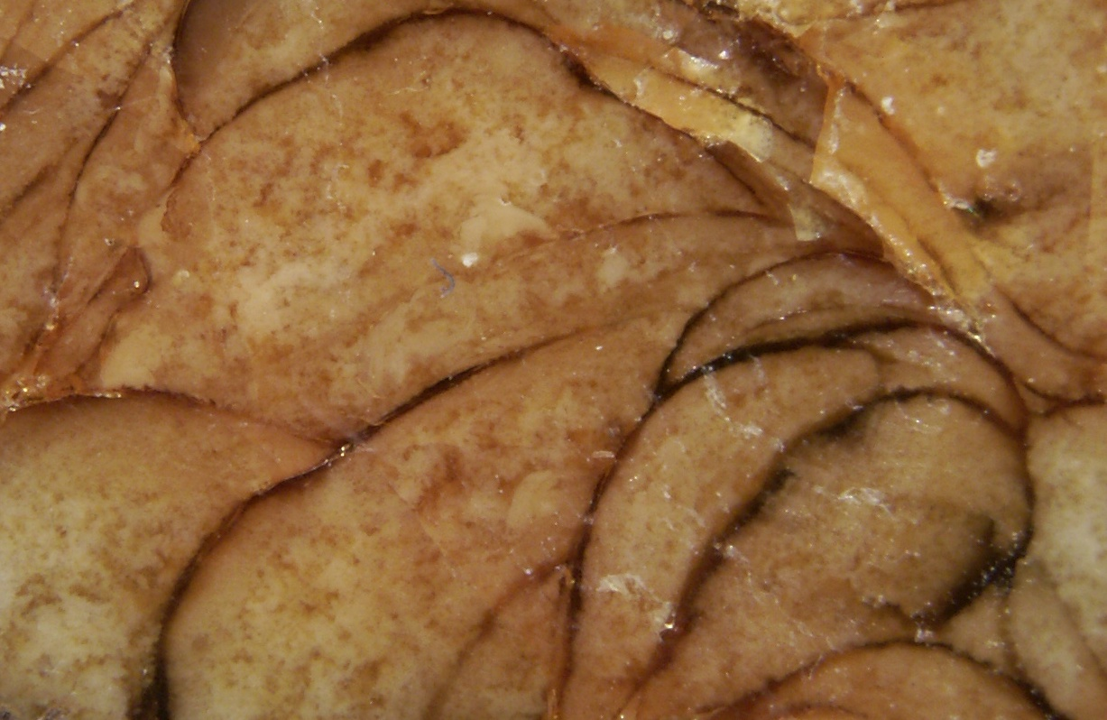 Amber from Bitterfeld, bitterfeldite